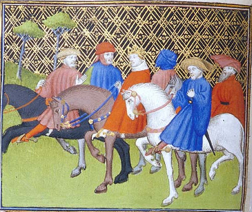 Louis the Pious